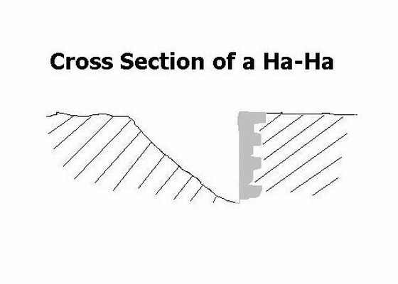 Removed unsightly and unnecessary (due to normal thumbnail borders) black border.